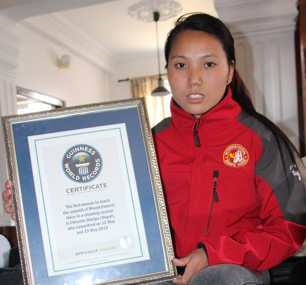 Chhurim is the first women to climb Mt. Everest twice in the same season.